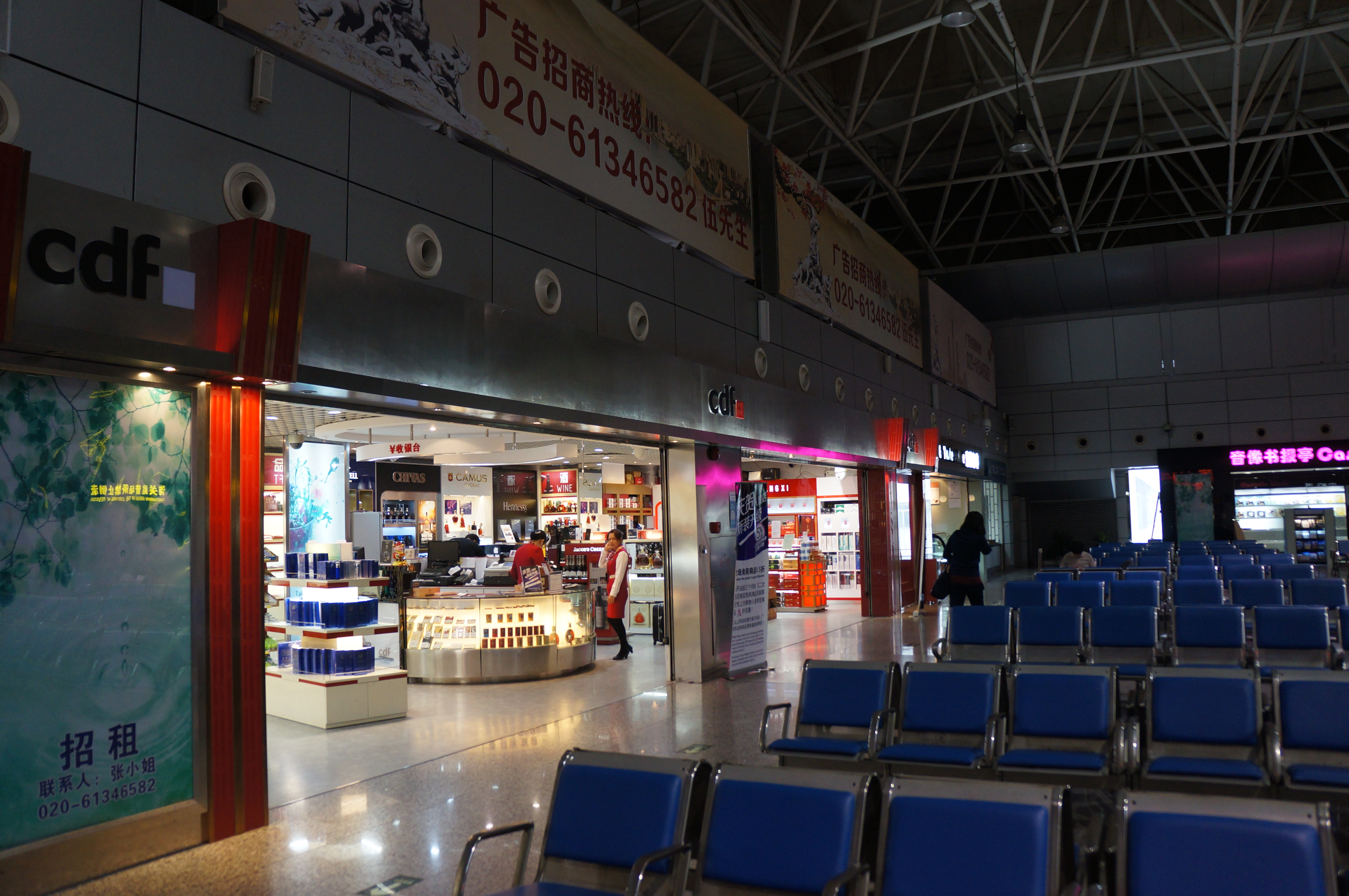 201609 CDF Store at isolated area of Guangzhoudong Station